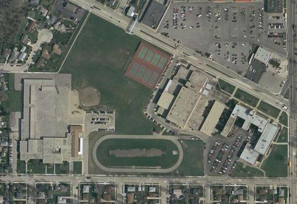 Racine, Wisconsin: A USGS aerial image showing Wadewitz Elementary to the left and William Horlick High School to the right.